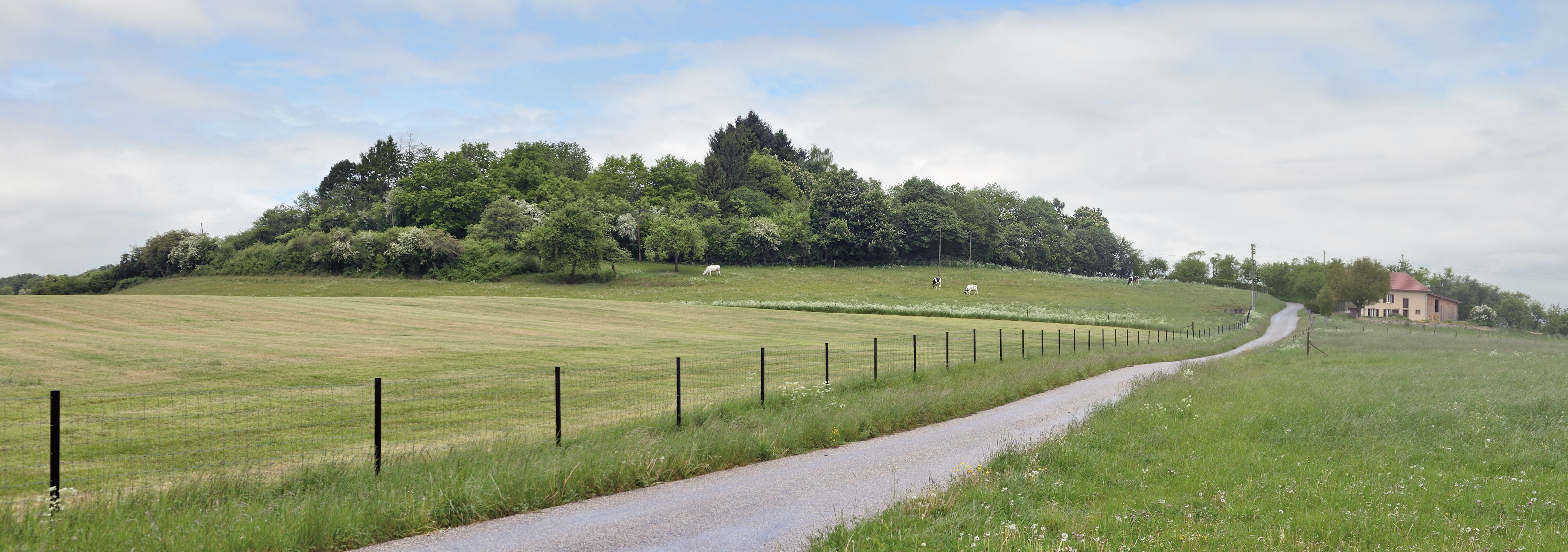 The way upwards to Mont Saint-Jacques in the nunicipality of Bech in Luxembourg.